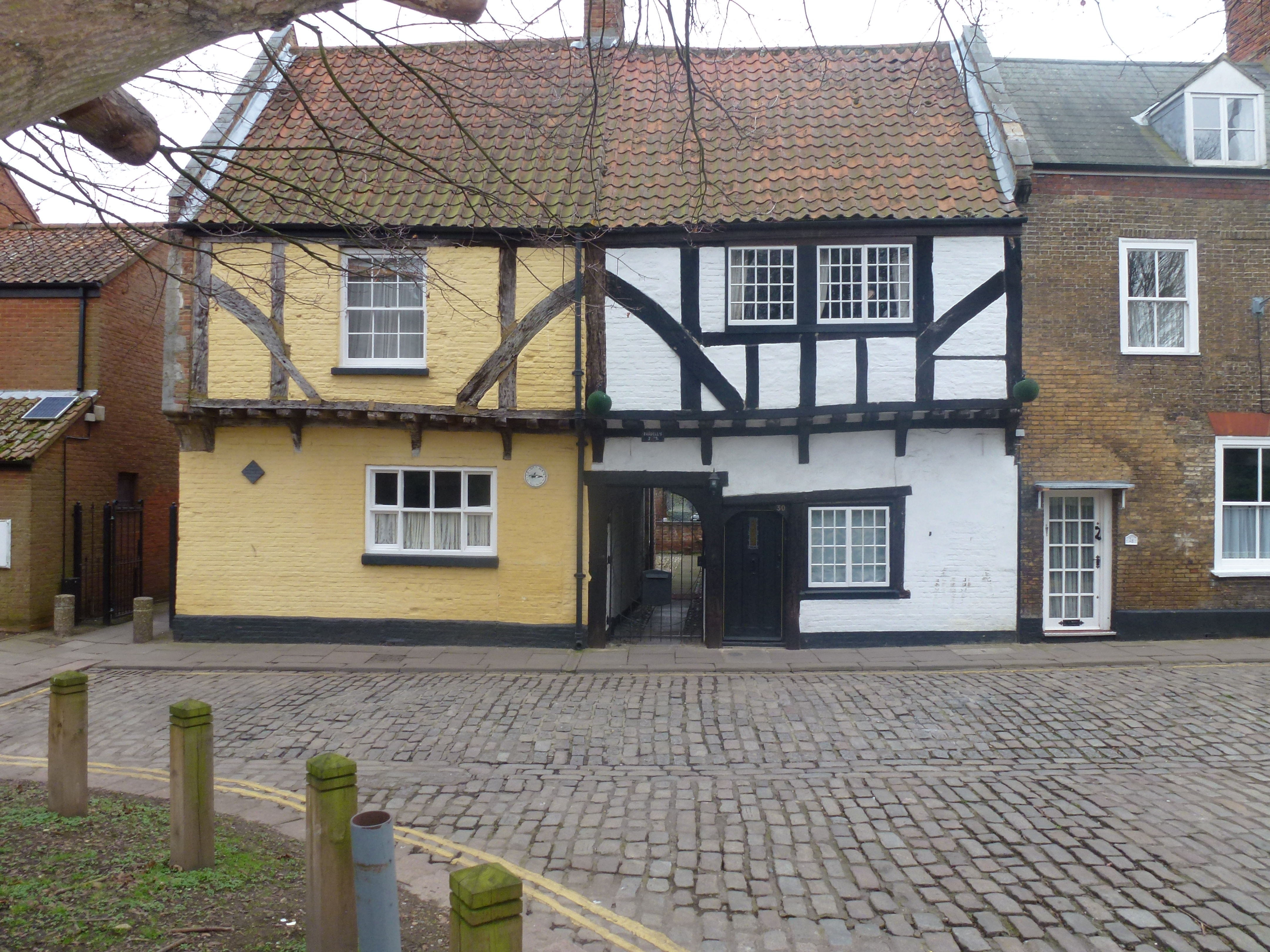 The old pub The Grampus in Pilot Street, Kings Lynn, now a private residence.